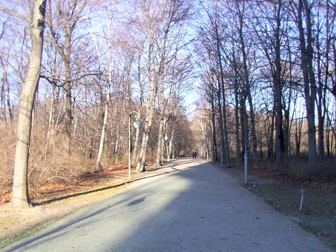 The original route of the Siegesallee in Berlin-Tiergarten in December 2003. Self-created Dec 2003